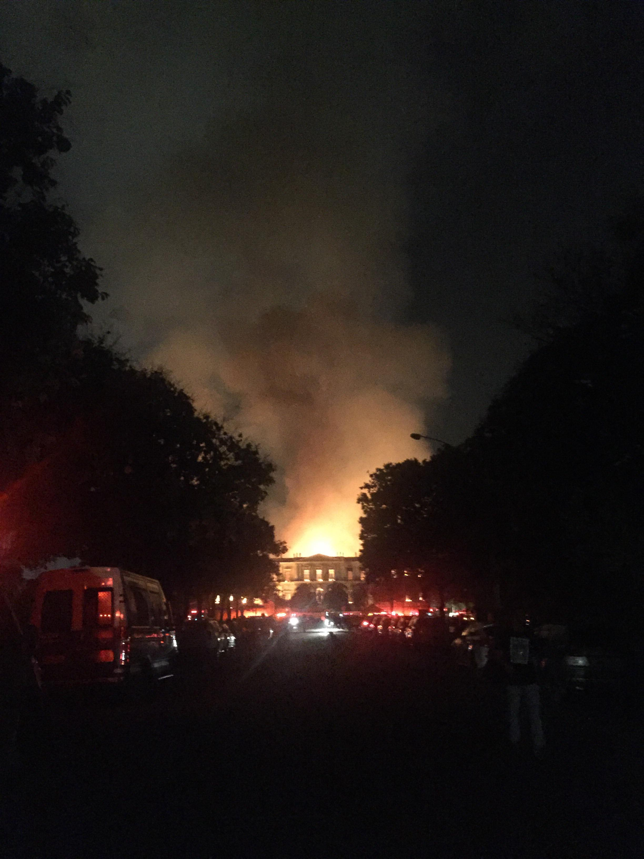 Fire at the National Museum of Brazil, in Rio de Janeiro, on September 2, 2018